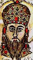 Byzantine emperor Andronikos IV Palaiologos